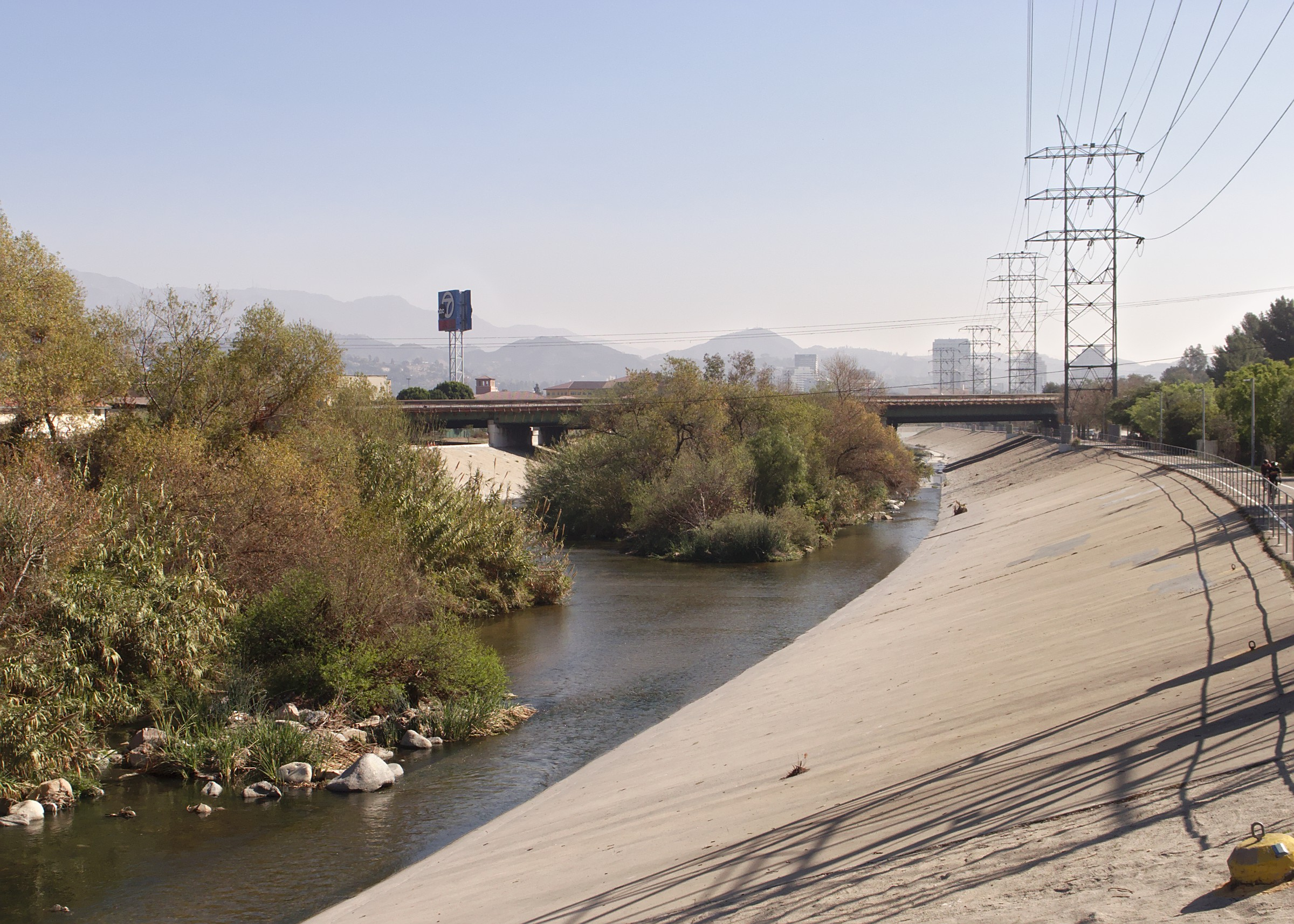 The Los Angeles River from the Riverside-Zoo Drive bridge, looking east, with bike path visible on the right. Glendale, California.